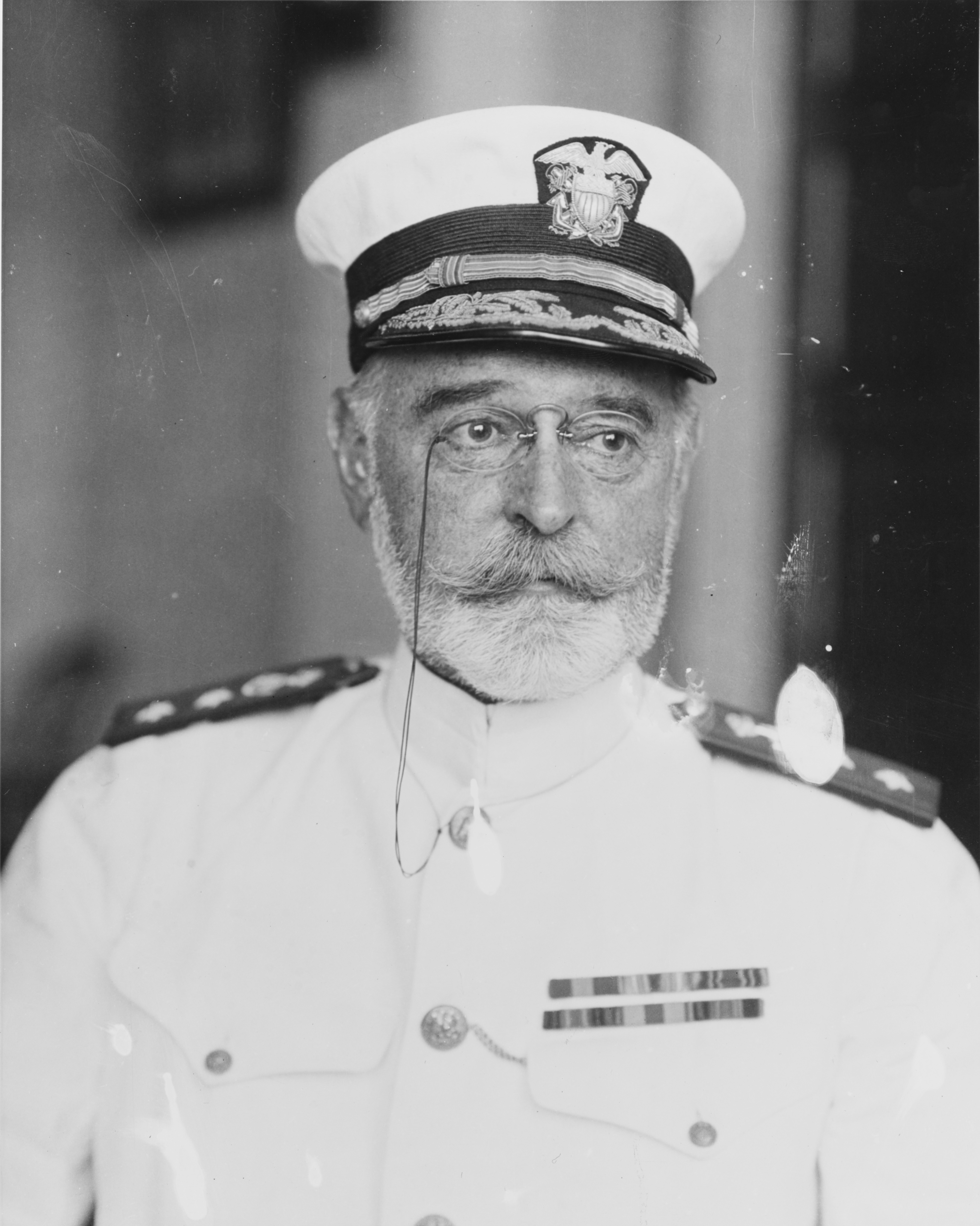 Photographed 25 June 1921. Photograph from the Bureau of Ships Collection in the U.S. National Archives.